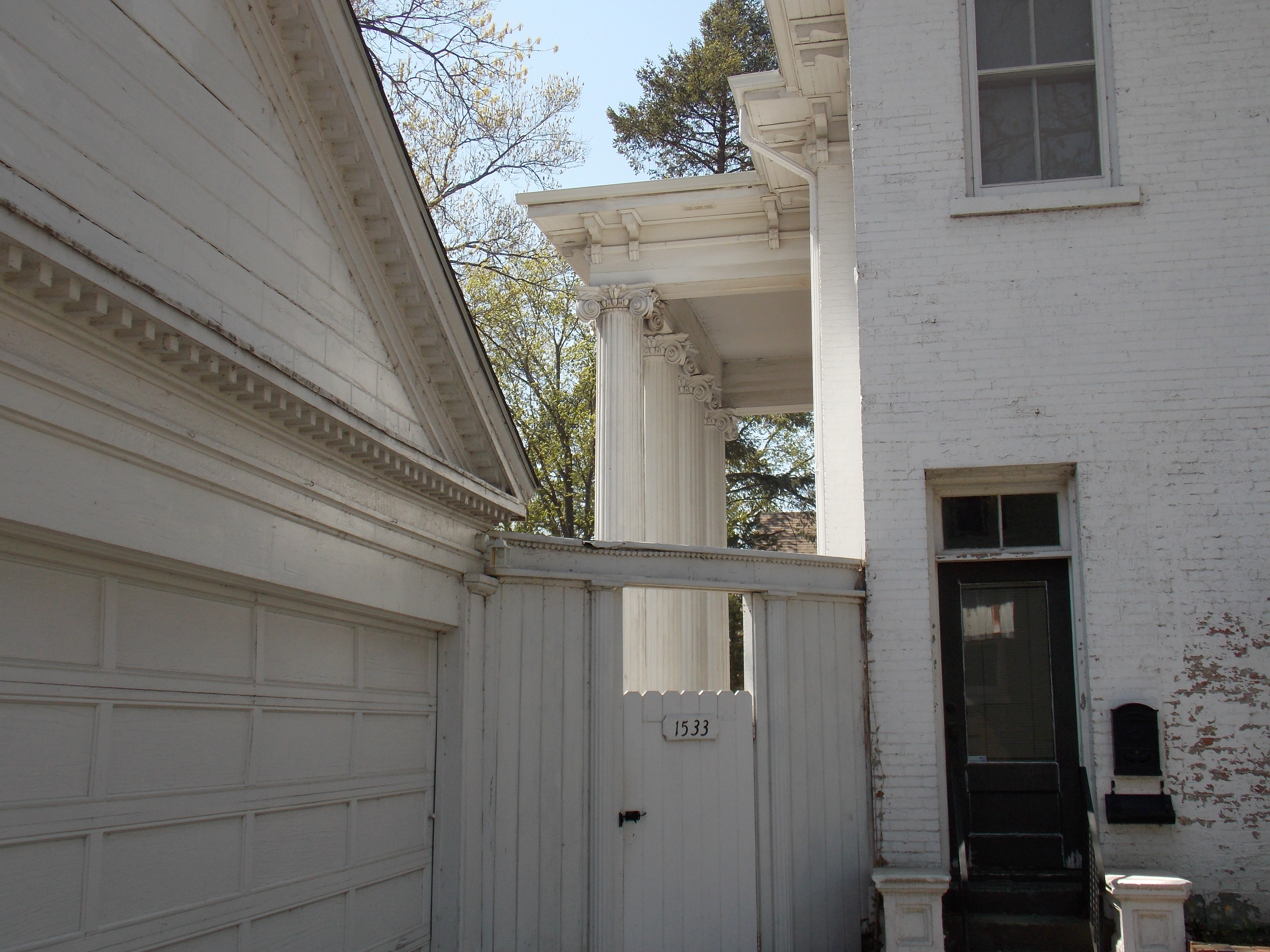 The south portico of Clifton, a house in Davenport, Iowa. It is listed on the National Register of Historic Places.